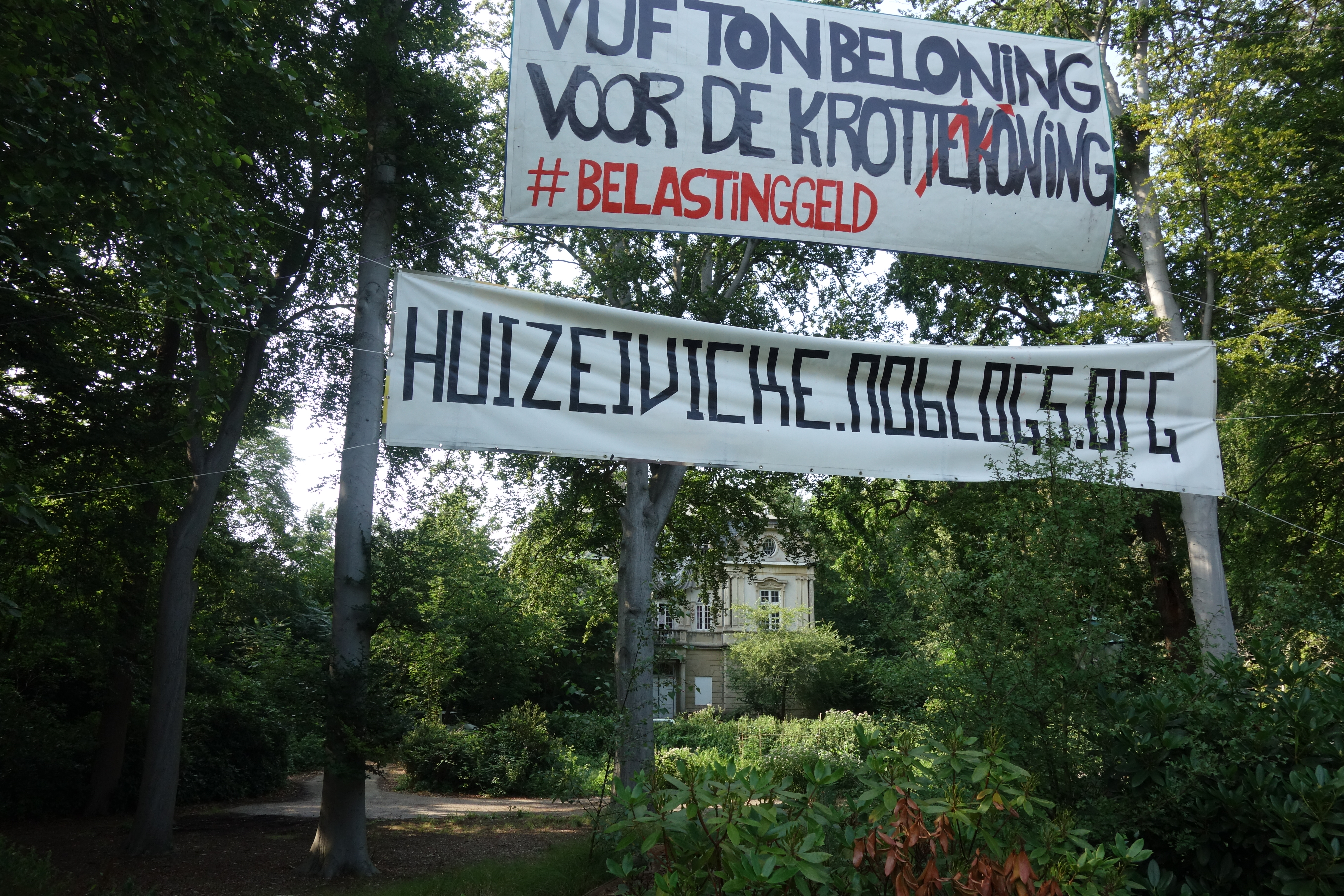 Huize Ivicke, Rust en Vreugdlaan 2, 2243 AS Wassenaar, the Netherlands